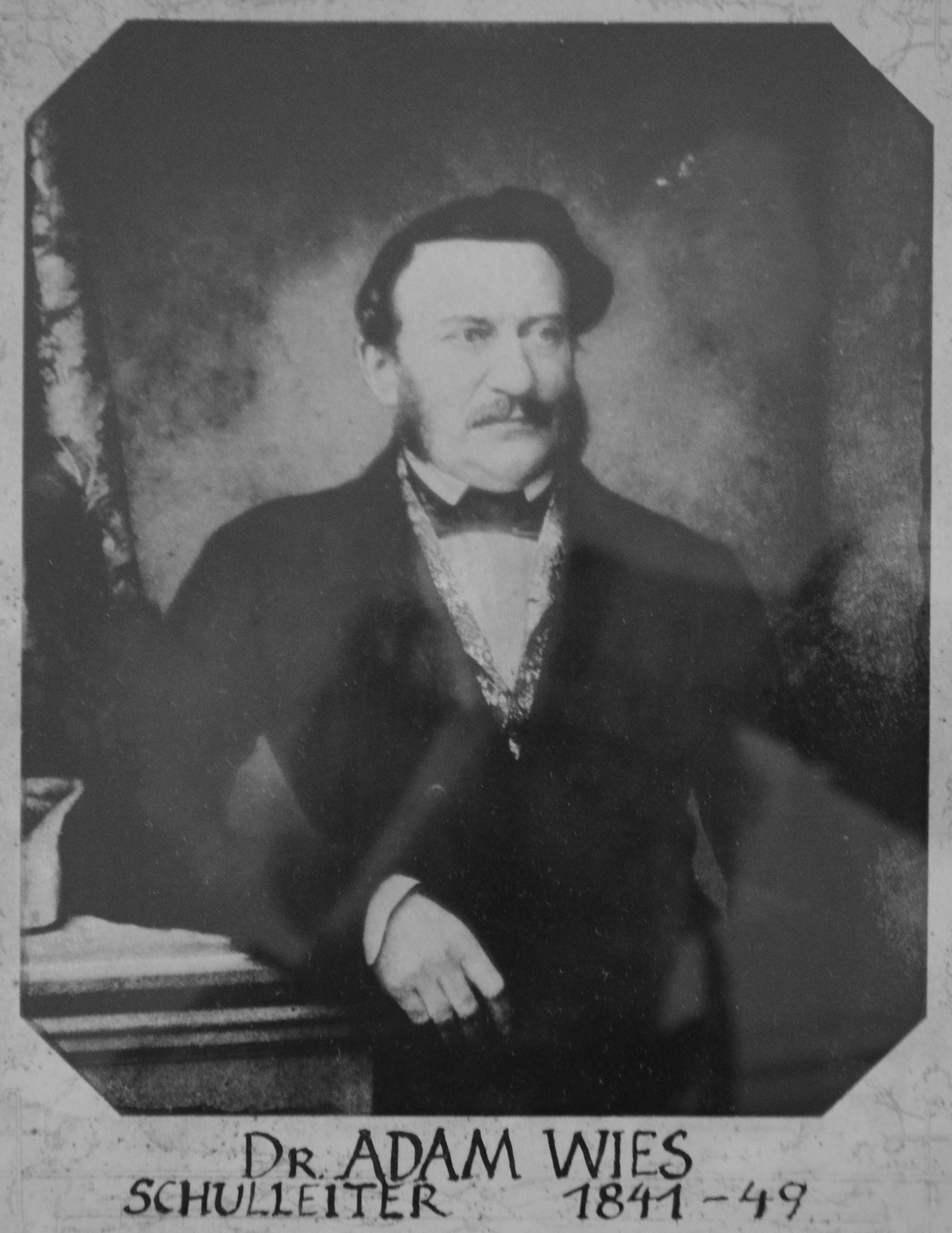 Adam Wies